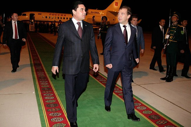 With President of Turkmenistan Gurbanguly Berdimuhamedov.